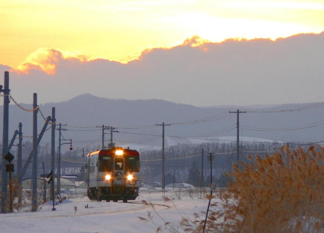 Hokkaido Chihokukogen Railway Line.(Japan).